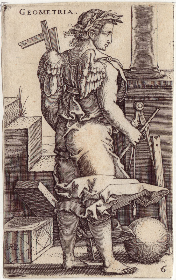 Beham, (Hans) Sebald (1500-1550): Geometria (B.126, P.128), from The Seven Liberal Arts, P., Holl. 123-129. First state of two.